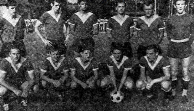 Od leve stojijo: Jože Zagorc, Jovanović, Dragan Rogić, Milovan Nikolić, Branko Oblak, Borut Škulj. Od leve čepijo: Joakim Vislavski, Franjo Frančeškin, Vili Ameršek, Radoslav Bečejac, Anton Čeh.